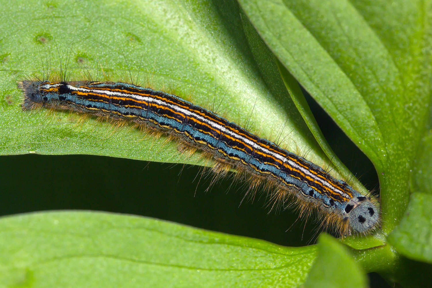 Caterpillar of the Lackey moth, Malacosoma neustria; body length ~40 mm.